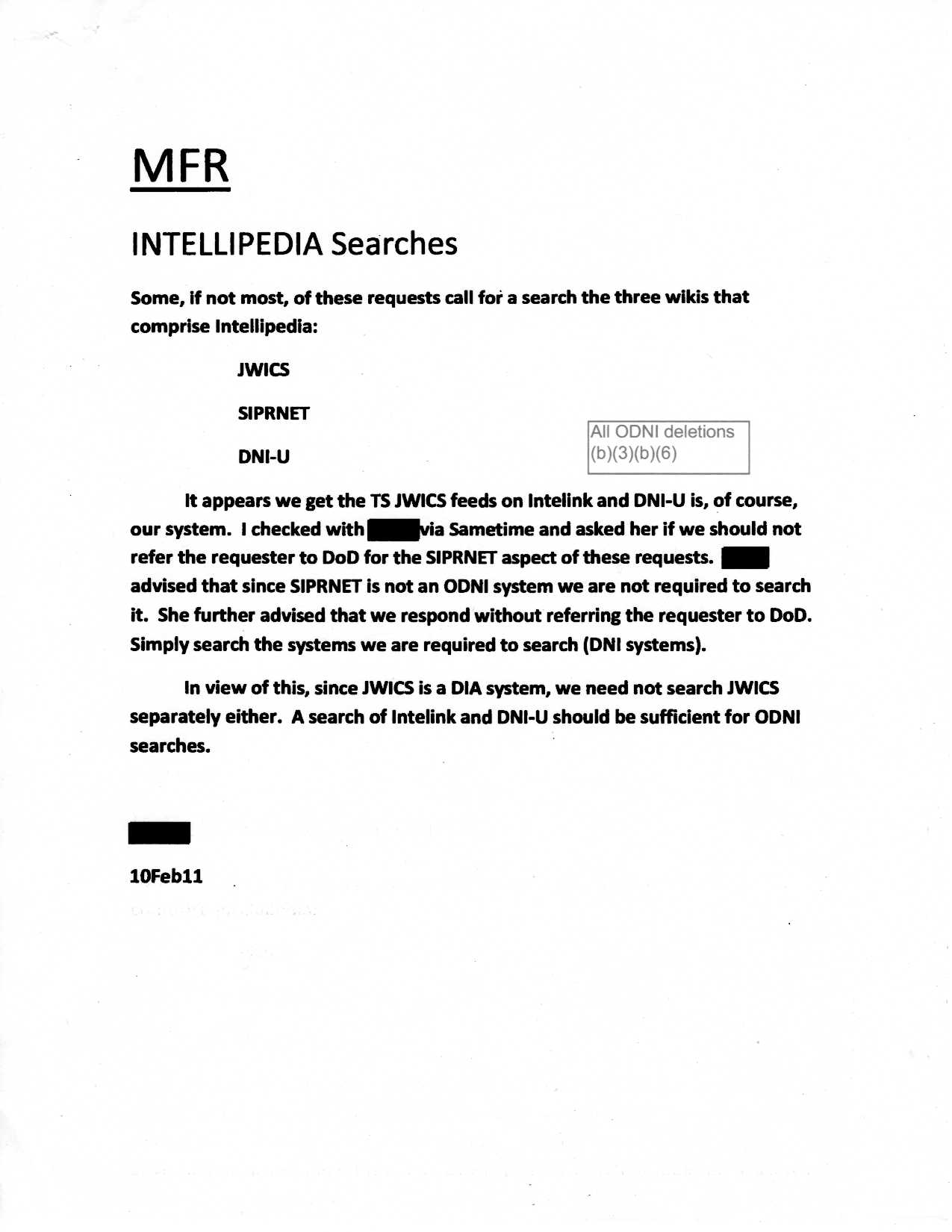 This document was retrieved from FOIA Request DF-2014-00271.